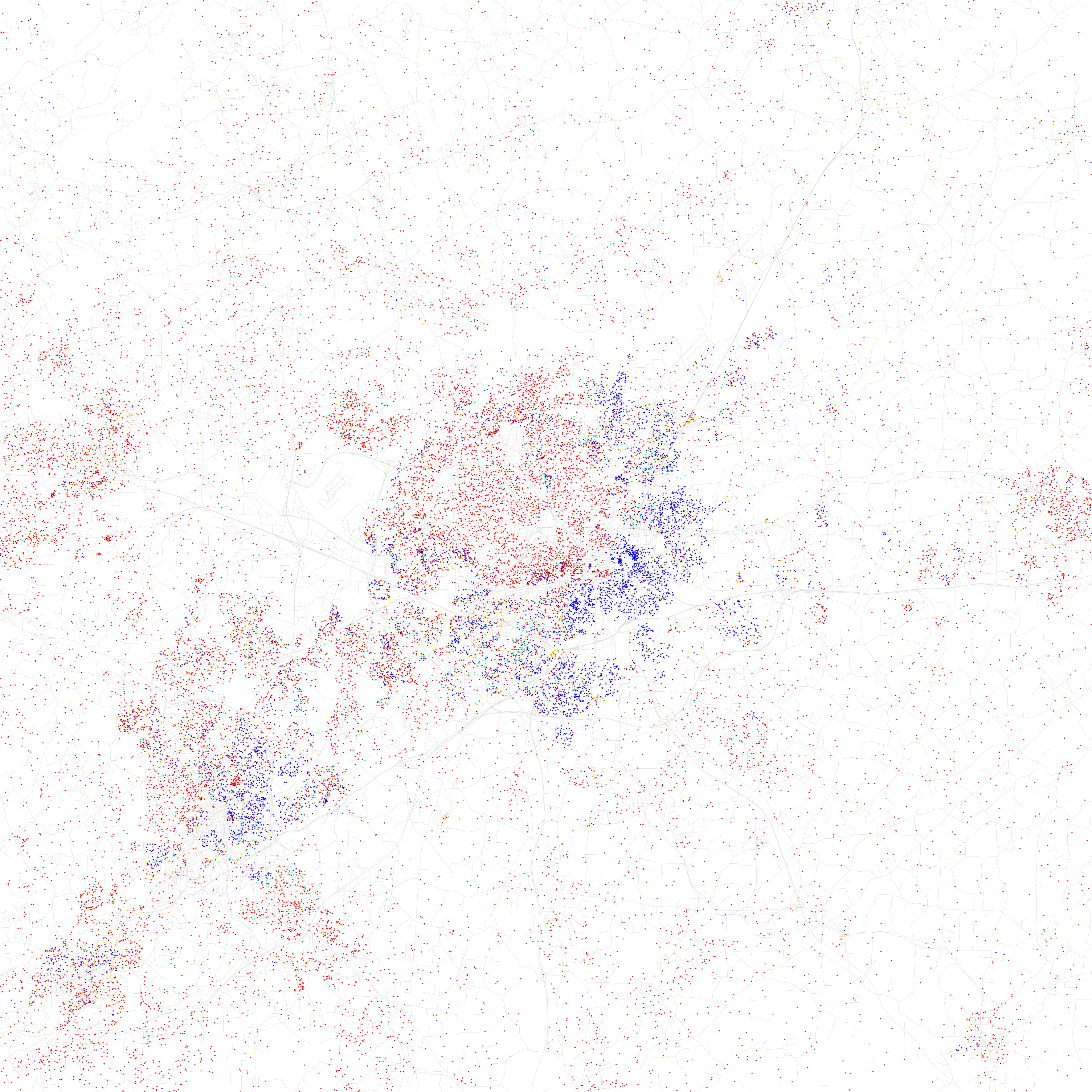 Maps of racial and ethnic divisions in US cities, inspired by Bill Rankin's map of Chicago, updated for Census 2010. Red is White, Blue is Black, Green is Asian, Orange is Hispanic, Yellow is Other, and each dot is 25 residents. Data from Census 2010. Base map © OpenStreetMap, CC-BY-SA